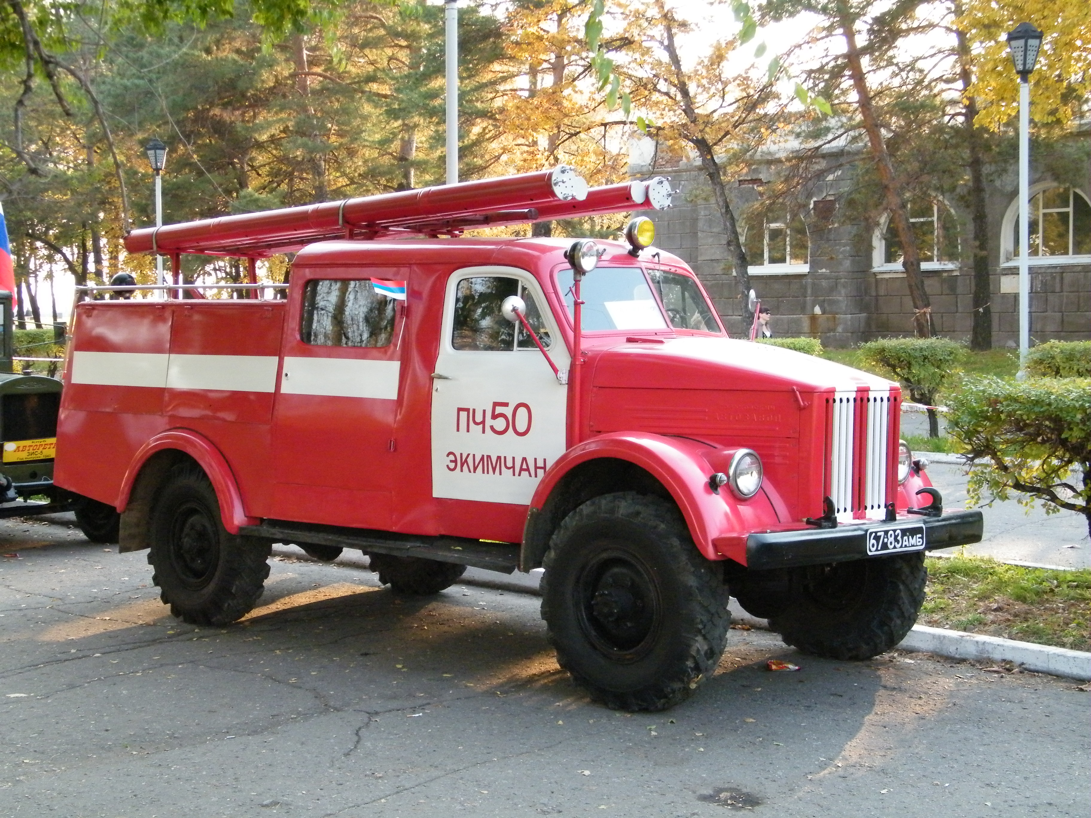 GAZ-63-based fire engines